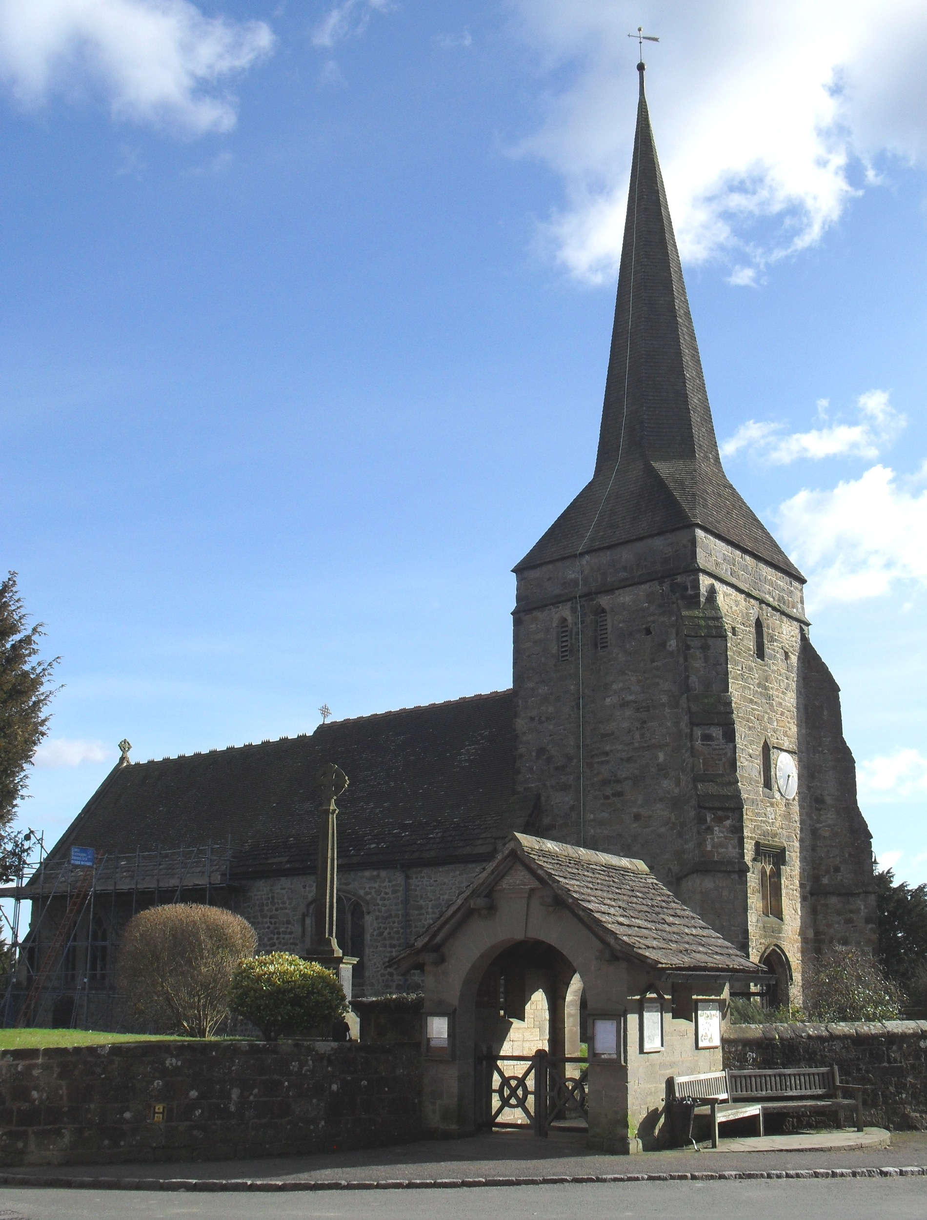 St Margaret's Church, West Hoathly, district of Mid Sussex, West Sussex, England. An Anglican church founded in the 11th century; the nave is of that vintage. Listed at Grade I by English Heritage (IoE Code 302844)